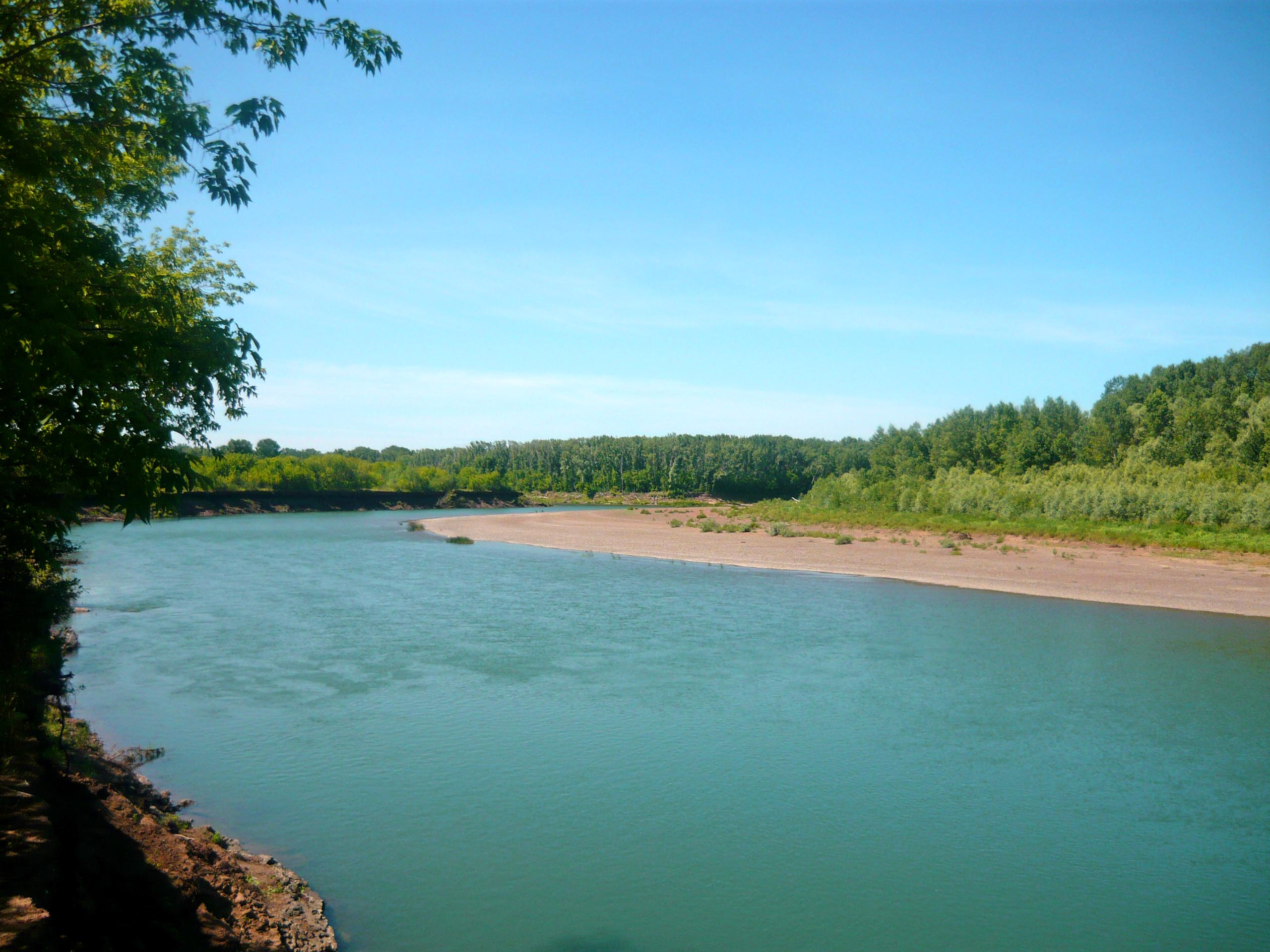 The mouth of Sakmara River as seen from the left bank of Sakmara.